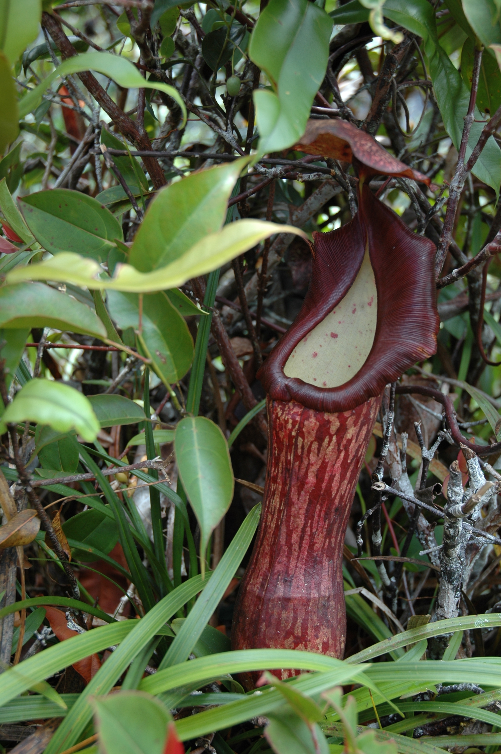 Nepenthes faizaliana Gunung Mulu Pinnacles by Jeremiah Harris